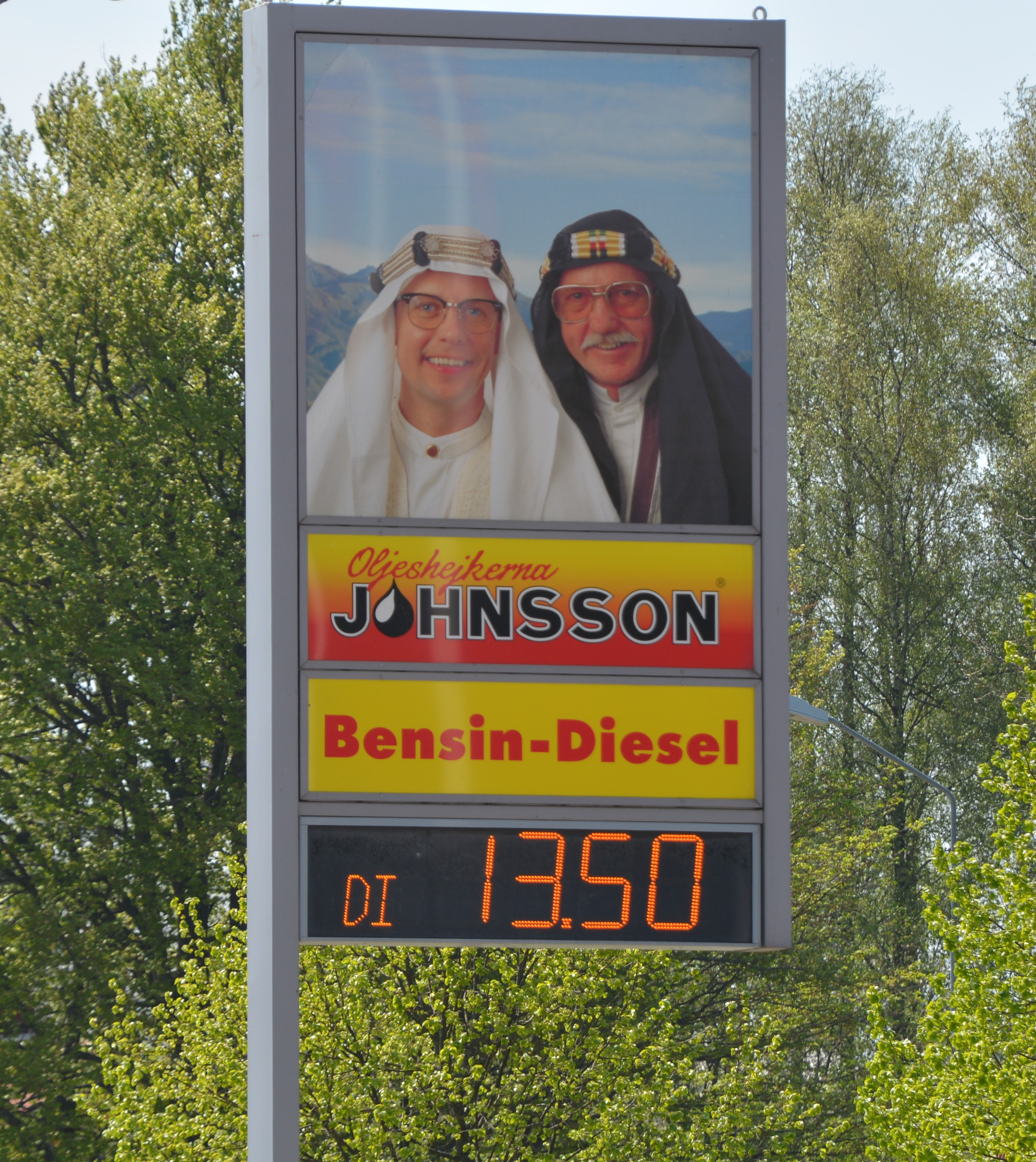 Oljeshejkerna Johnsson, Ryd